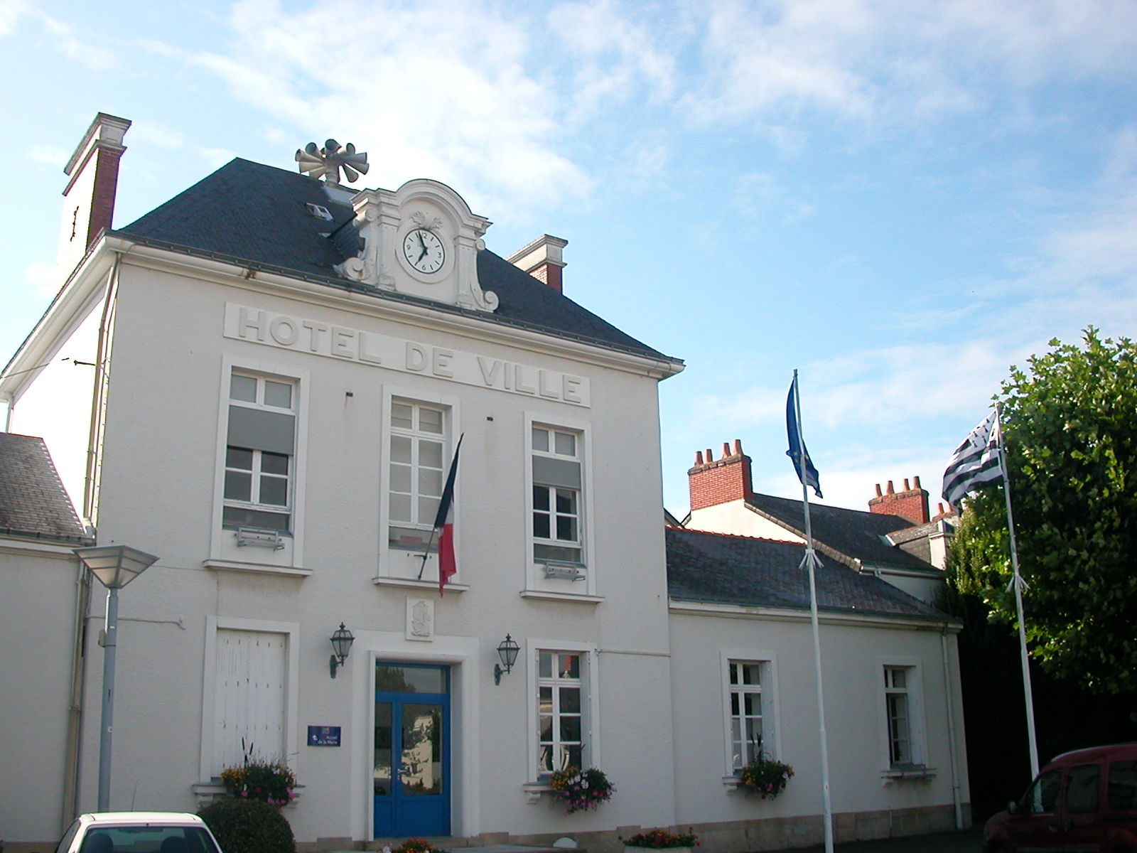 Town hall of Couëron